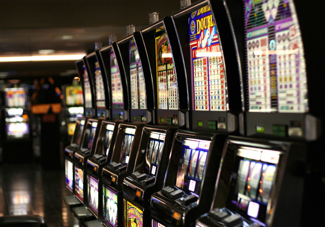 Las Vegas slot machine, photographed in June 2006.